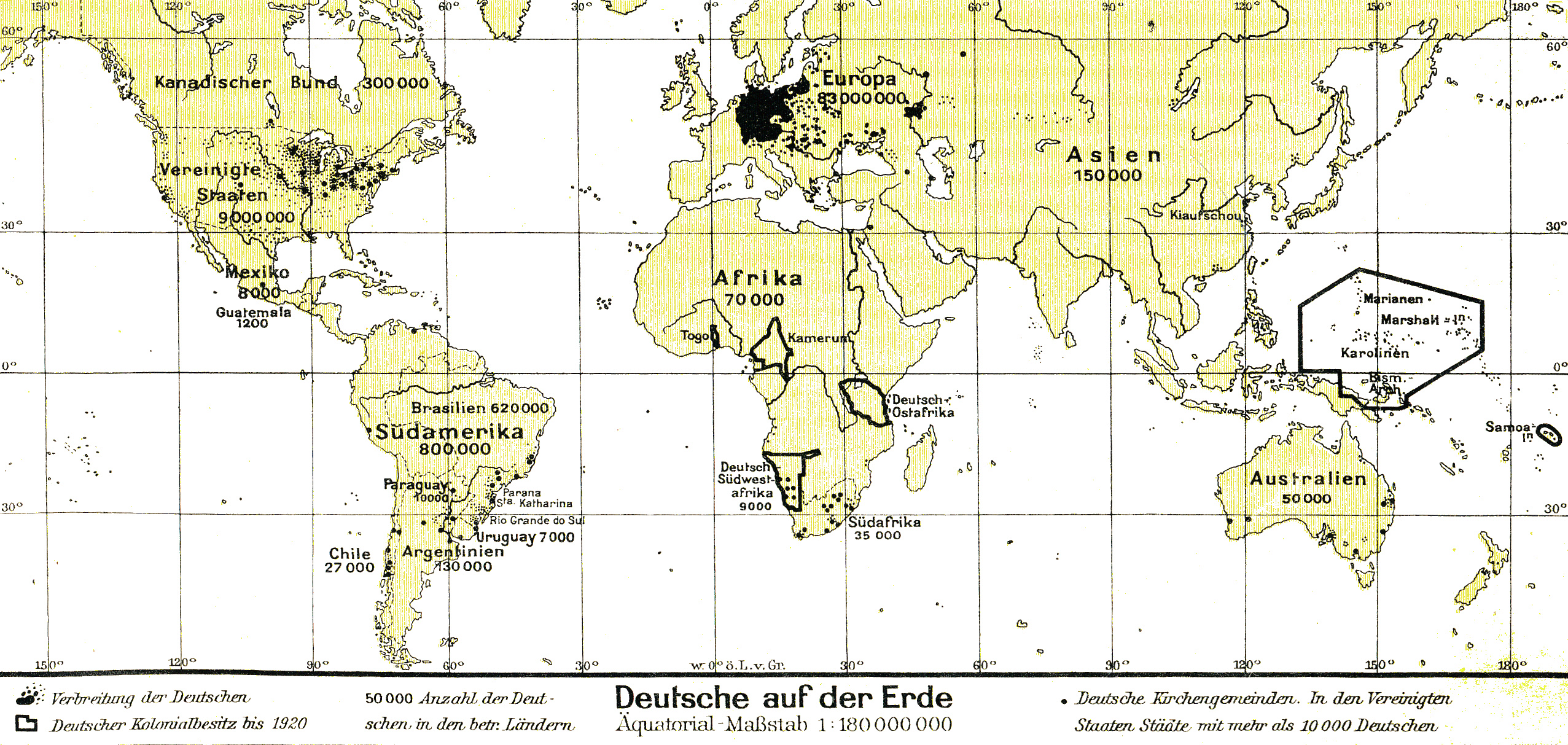 The Germans, Germans across the Earth. USA (9,000,000), Brazil (620,000), Canada (300,000), Argentina (130,000), Australia (50,000), South Africa (35,000), Chile (27,000), Paraguay (10,000), Mexico (8,000) Uruguay (7,000) This is a part of an old atlas. It does not represent the current situation.